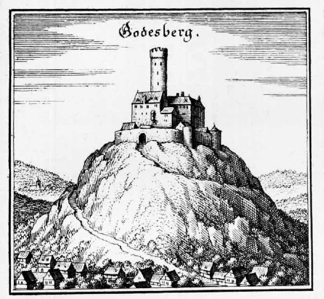 Copperplate engraving of the (fortress) by Matthäus Merian, from "Topographia Archiepiscopatuum Moguntinensis etc.